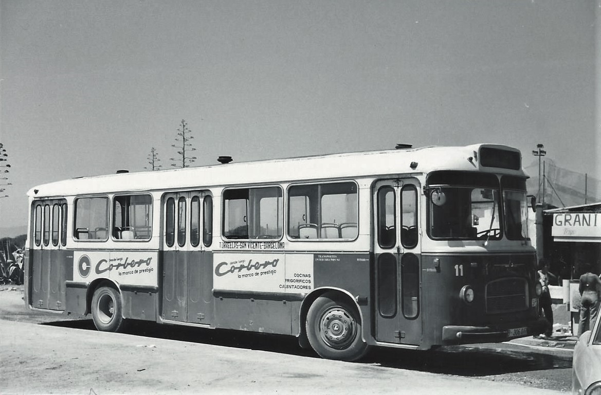 Bus number 11 of Transportes Interurbanos S.A. on the beach of El Pinar, in El Prat de Llobregat.